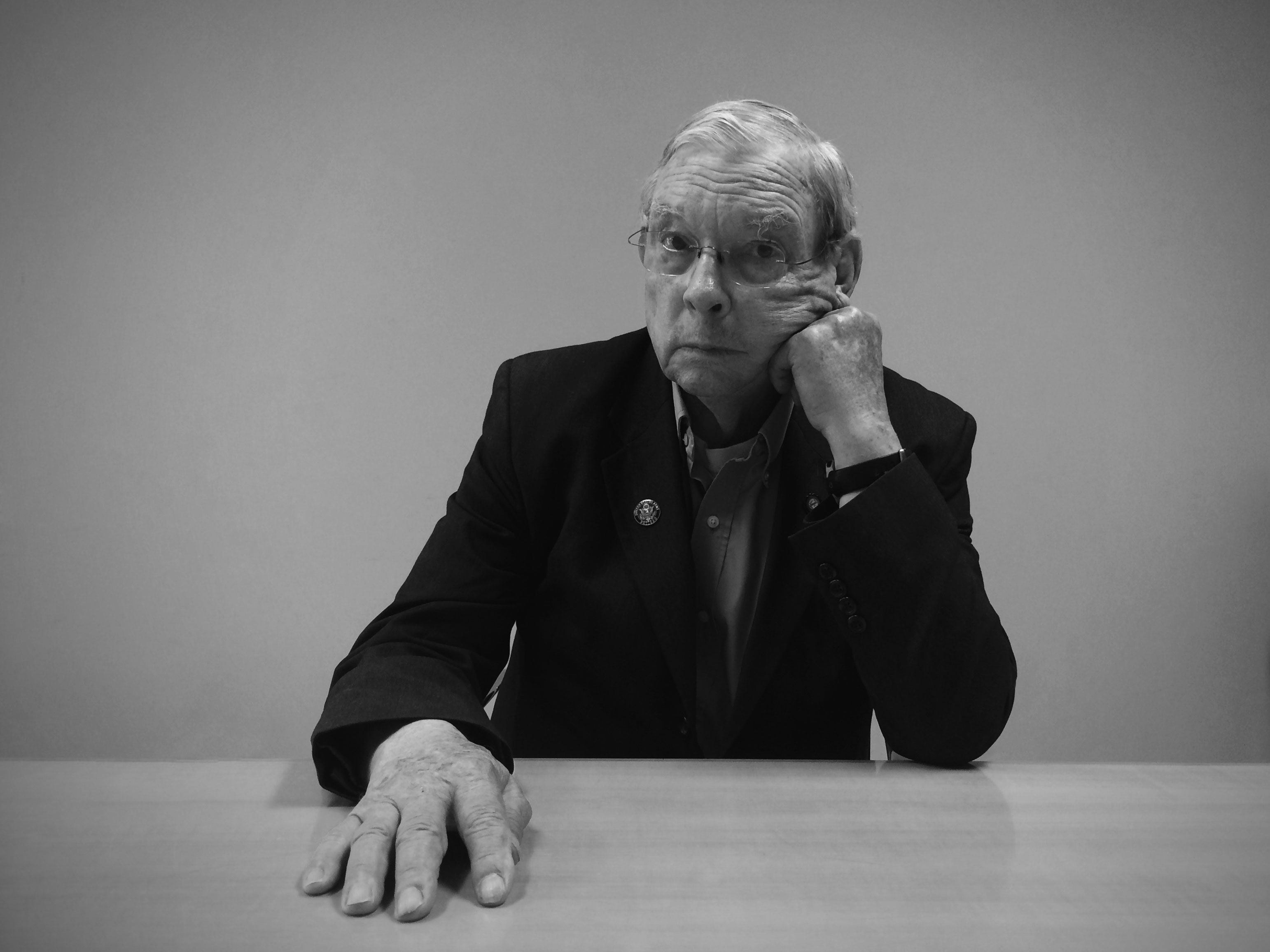 Donald Shaw on UNC Campus in 2015